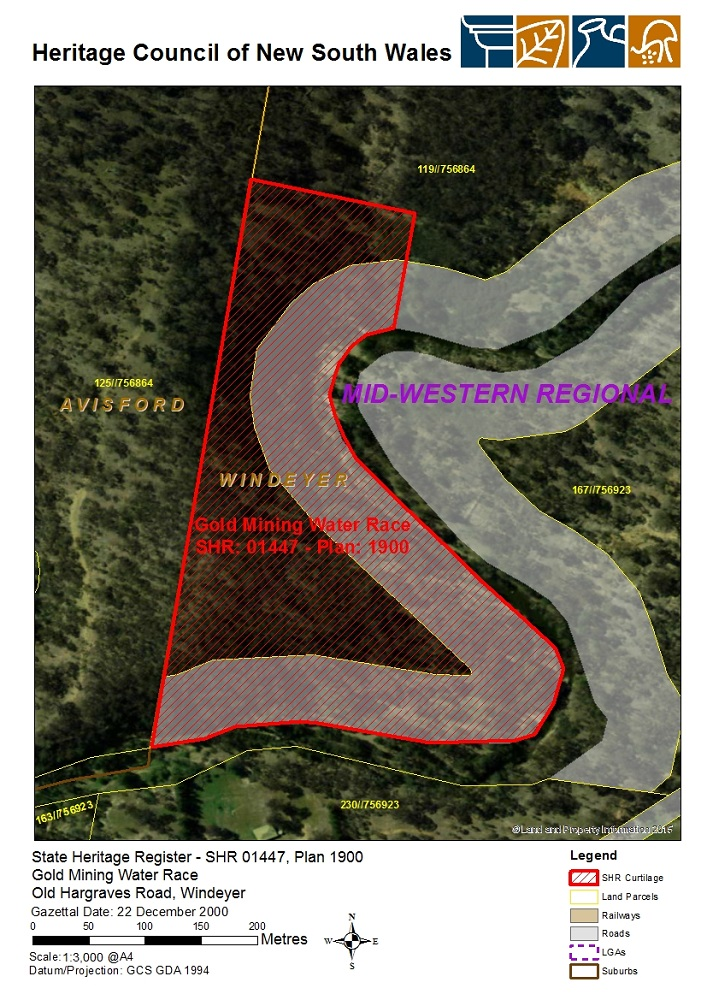 Gold Mining Water Race, Windeyer: SHR Plan 1900